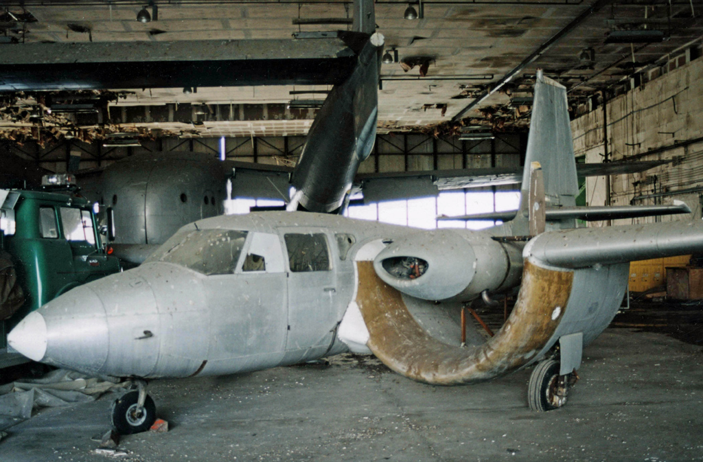 A front view of the Custer CCW-5 Channel Wing aircraft at the Mid Atlantic Air Museum at Reading, PA.